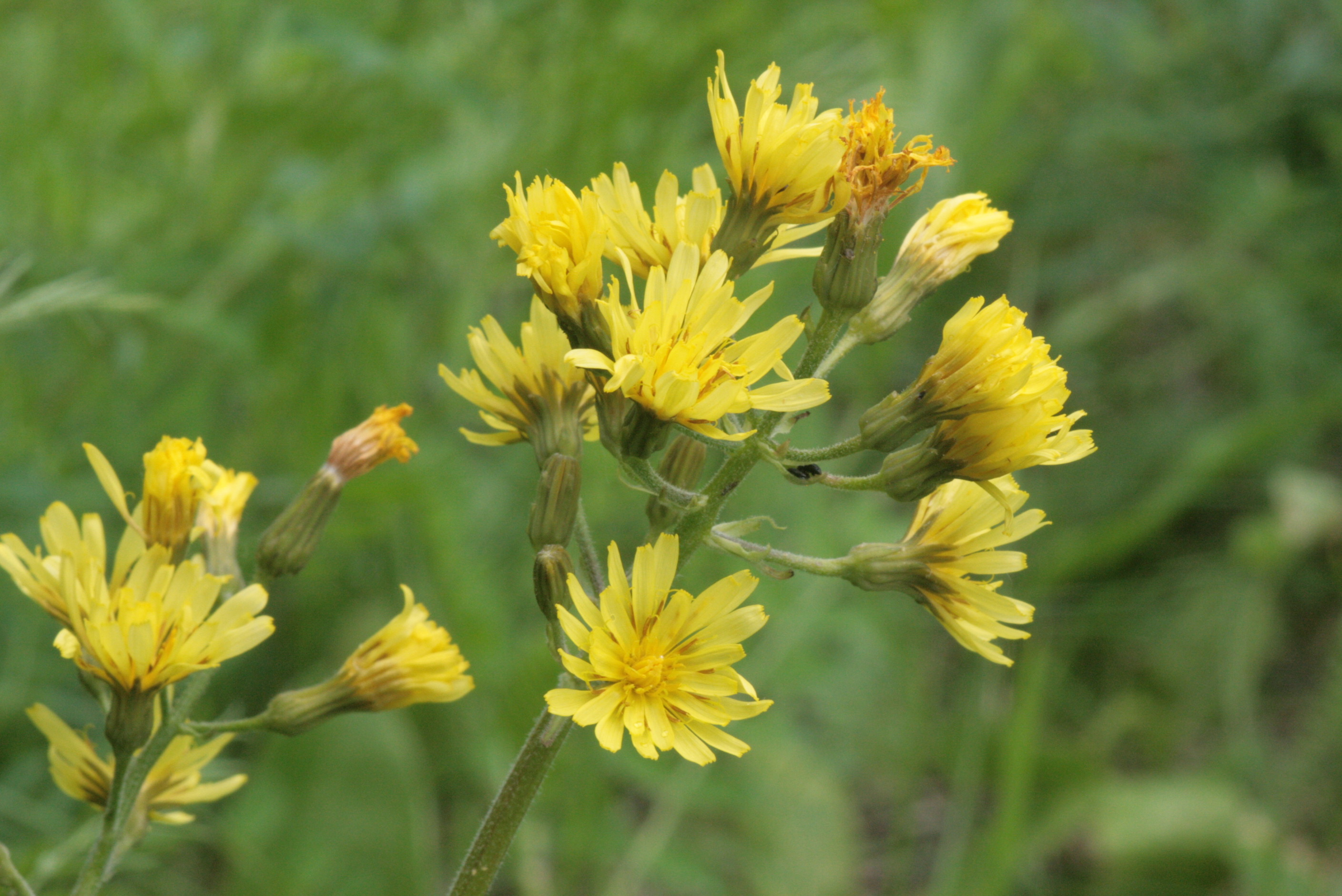 Crepis praemorsa